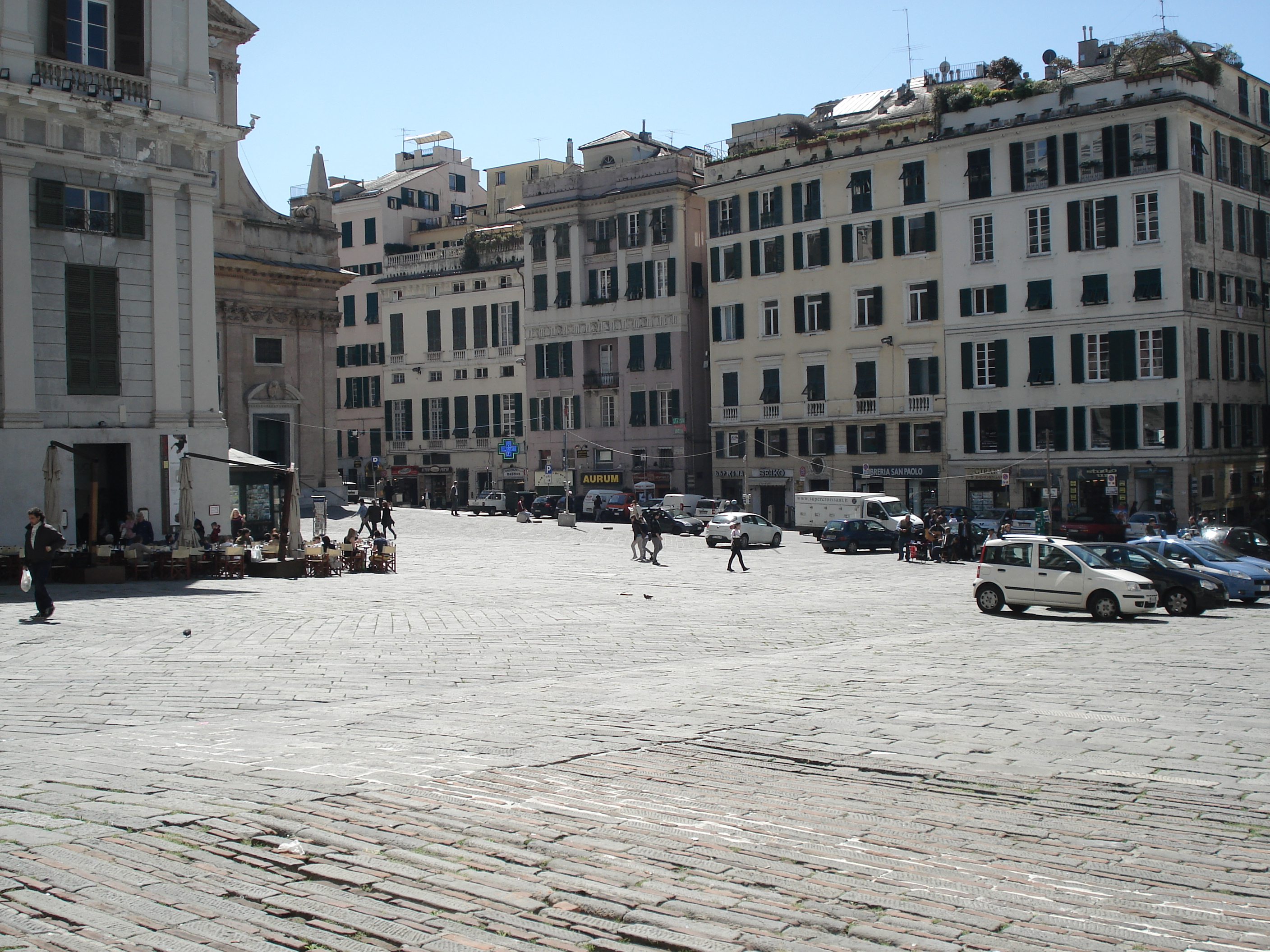 Matteotti Square in Genoa